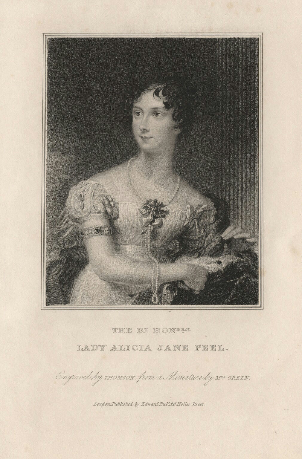 by James Thomson (Thompson), after Mary Green (nÈe Byrne), stipple engraving, published 1833